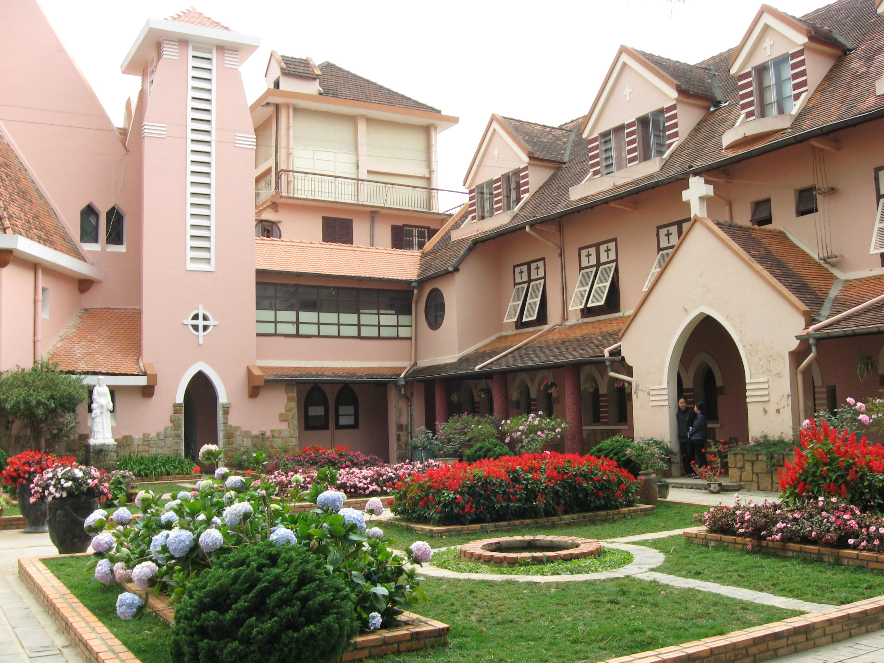 Domaine de Marie, Da Lat